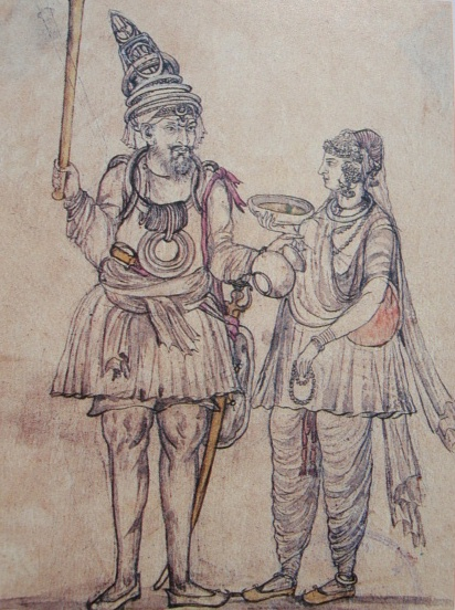 The Nihangni appears to have her hair in top knot (maybe a keski) She wears a salwar and kameez and carries a chakar and mala around her neck and a Mala in her hand. This 19th century sketch of a Sikh Nihang couple is likely to be drawn by Kehar Singh Musawar of Lahore and Amritsar.